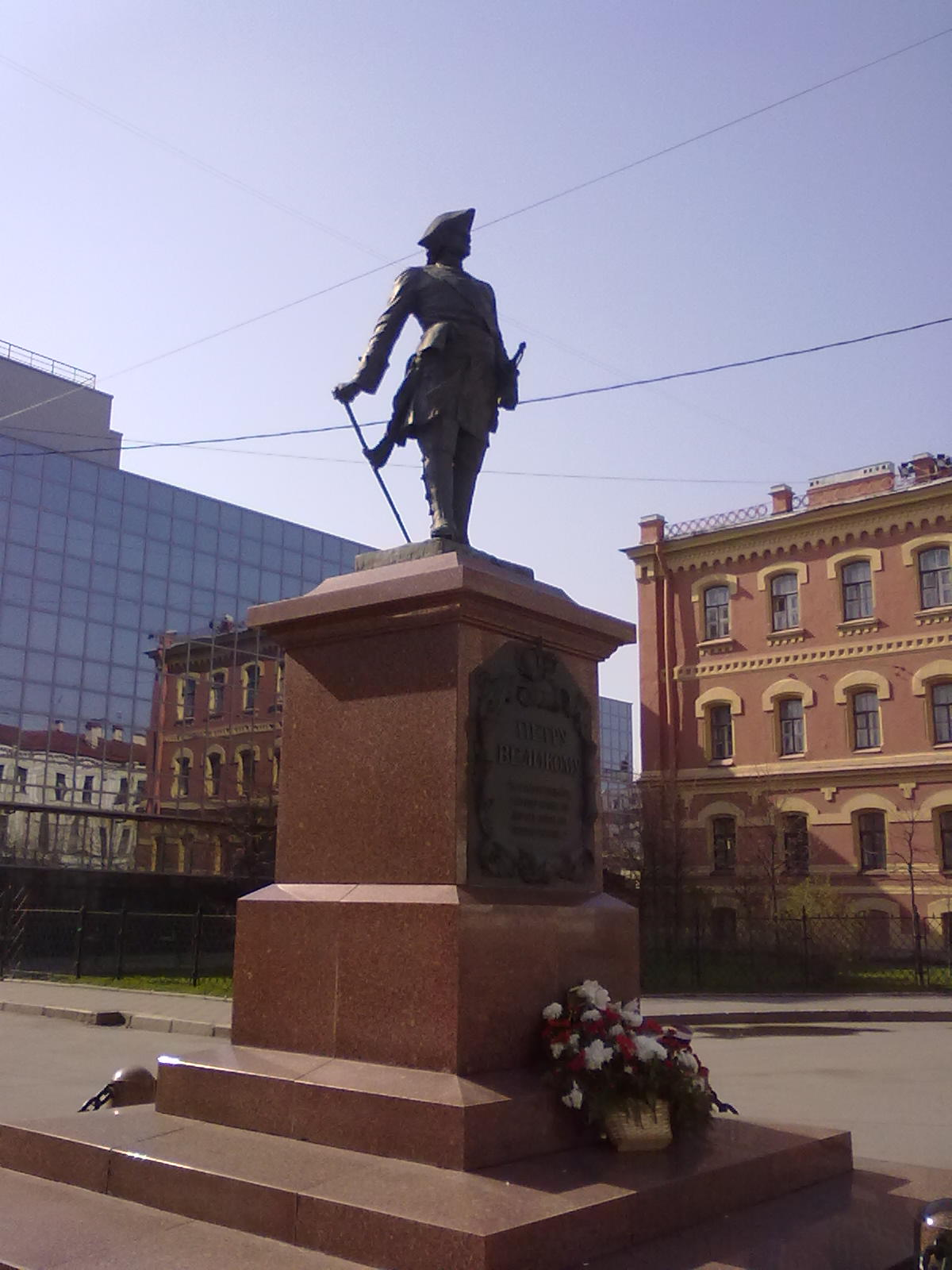 Monument to Peter the Great in Bolshoi Sampsonievsky Prospect